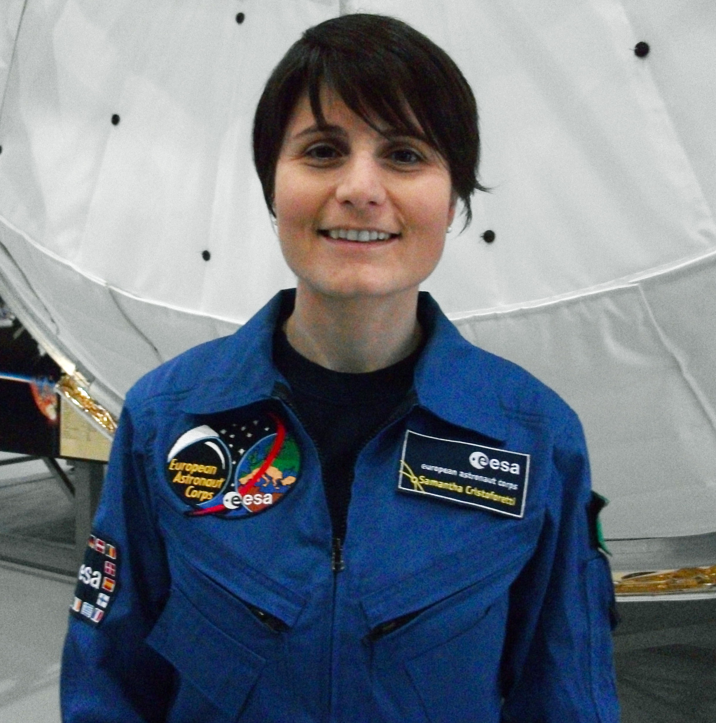 ESA Astronaut Samantha Cristoforetti from Italy